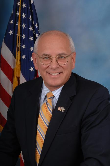 US Rep. Paul Tonko